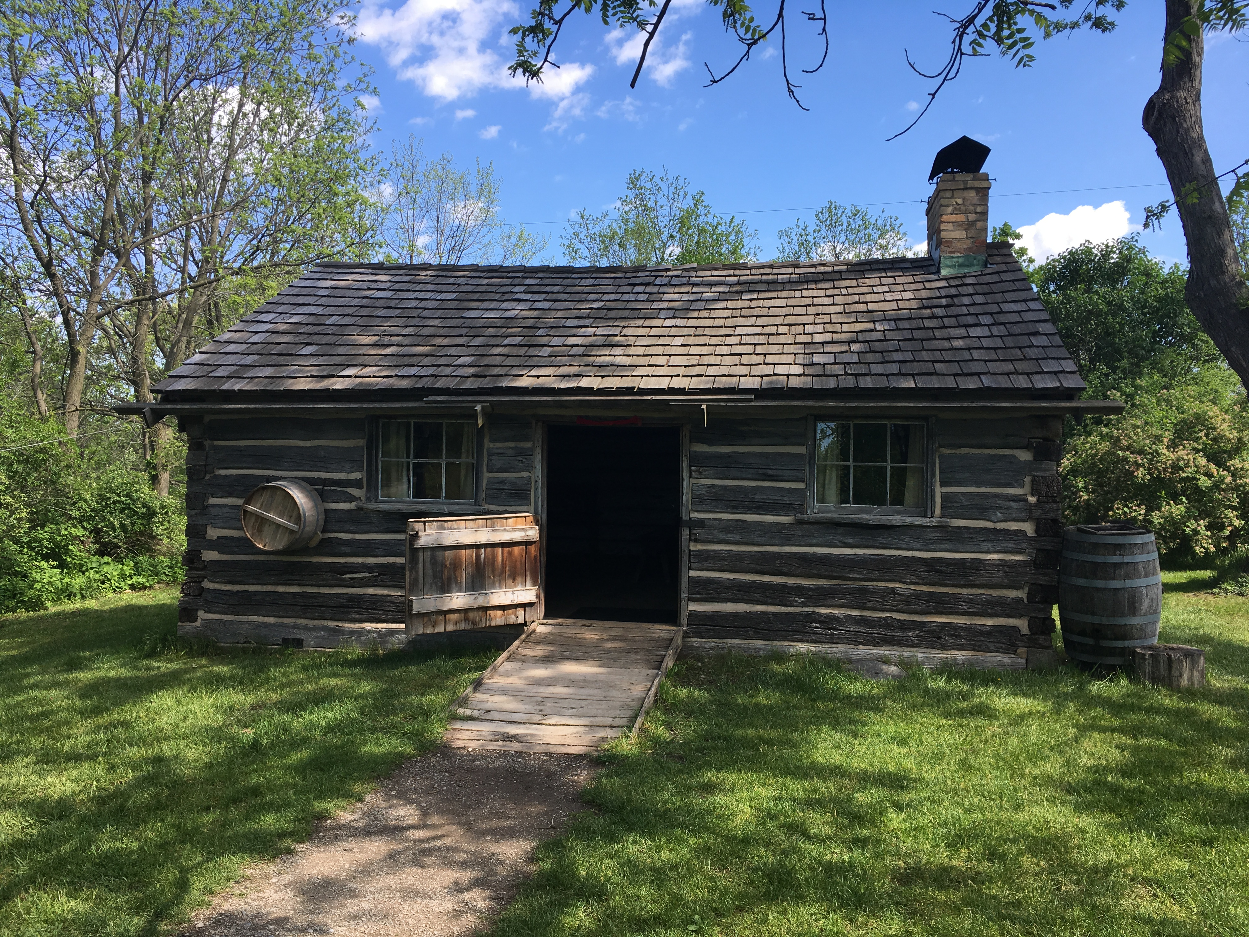 Log house at Fanshawe Pioneer Village, London, Ontario